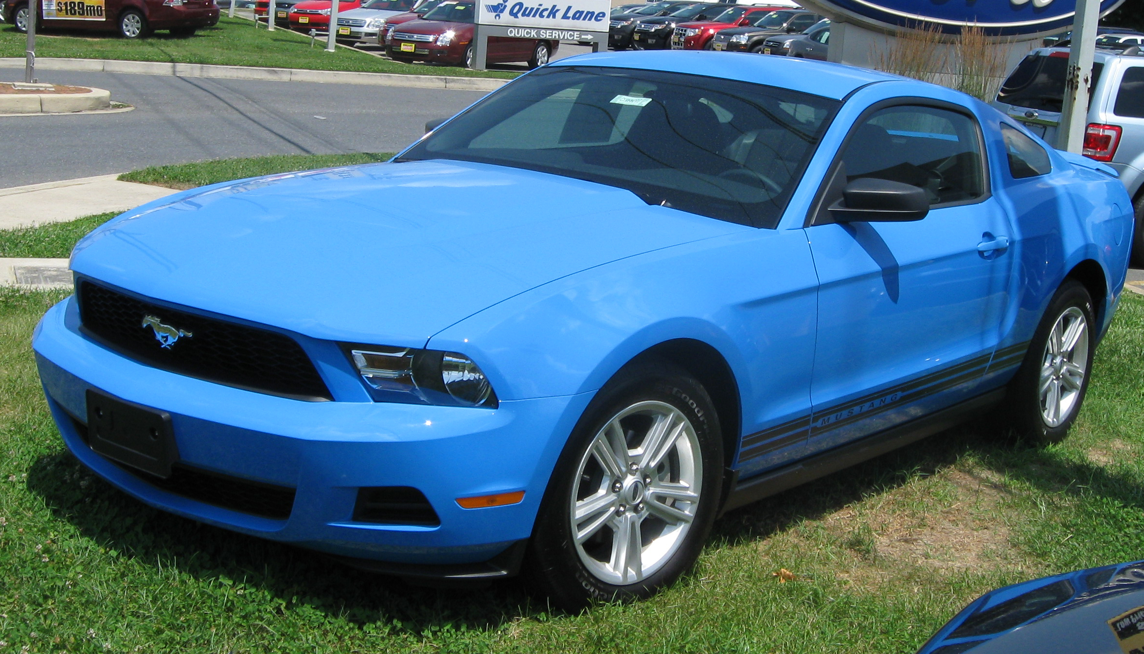 2010 Ford Mustang V6 coupe photographed in Gaithersburg, Maryland, USA.